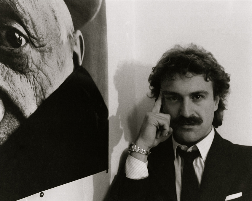 Augusto De Luca - (Exhibition of Irving Penn - Paris)